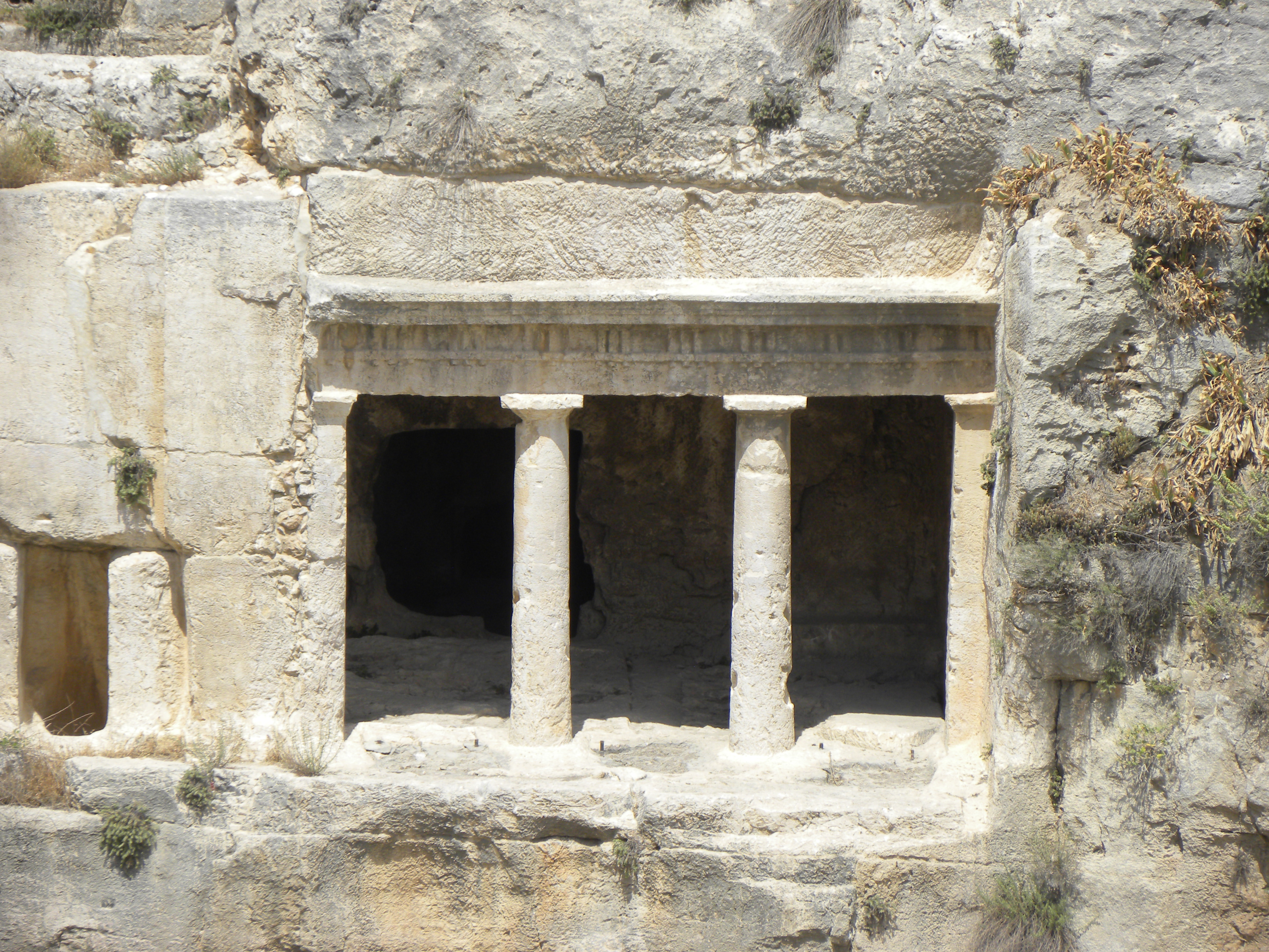 Kidron Valley.